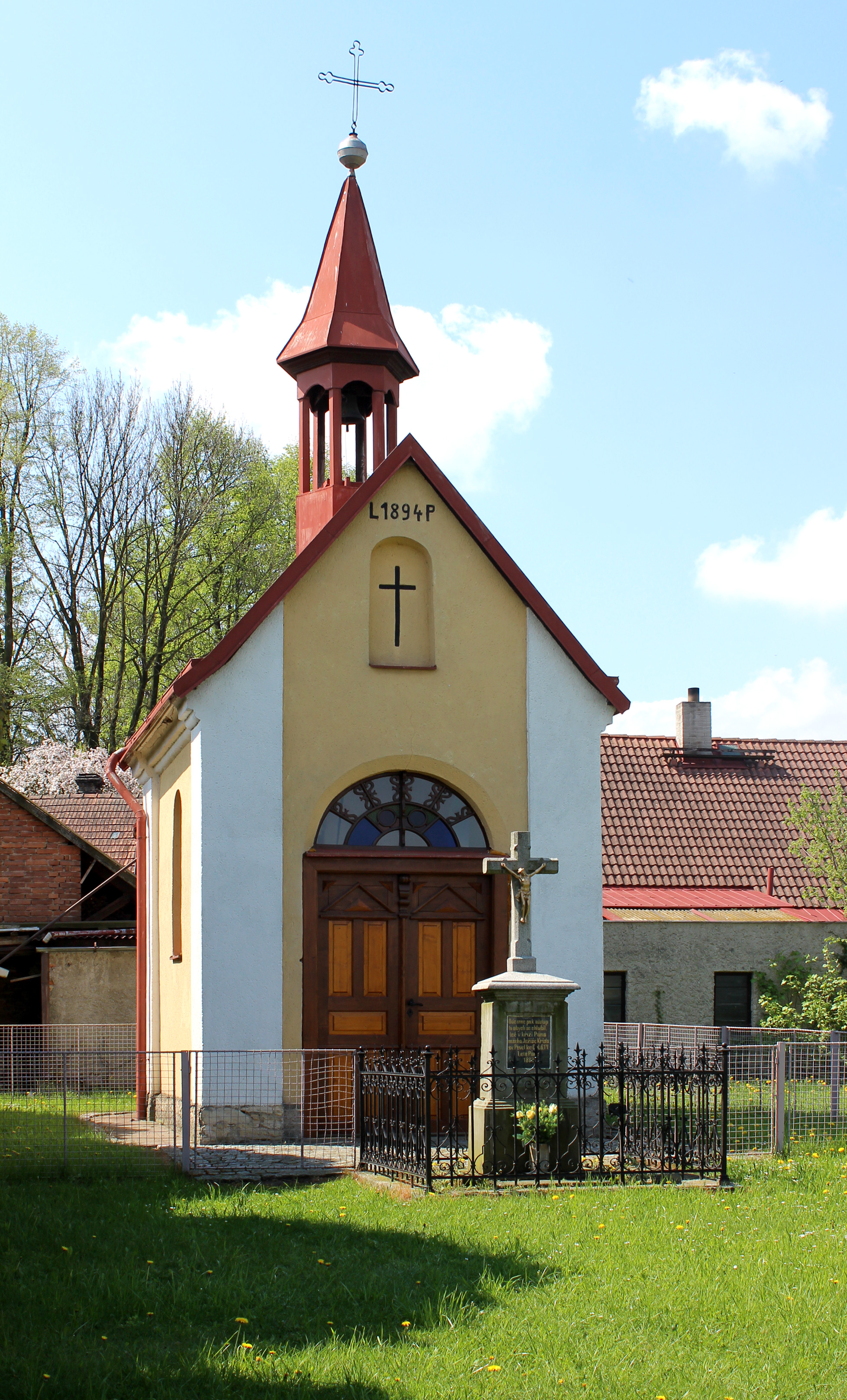 Small chapel in Oldřetice, part of Raná village, Czech Republic